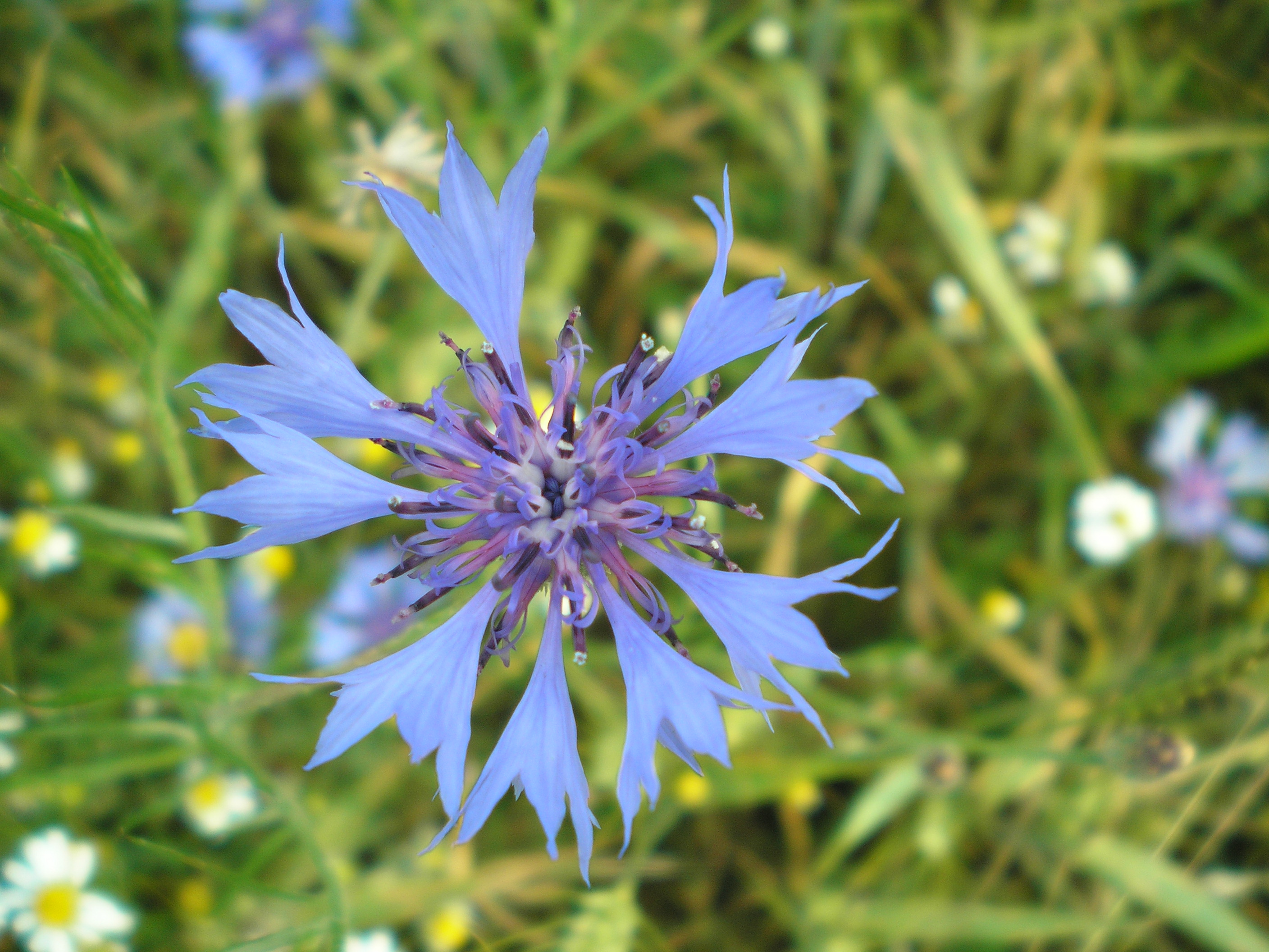 Centaurea cyanus